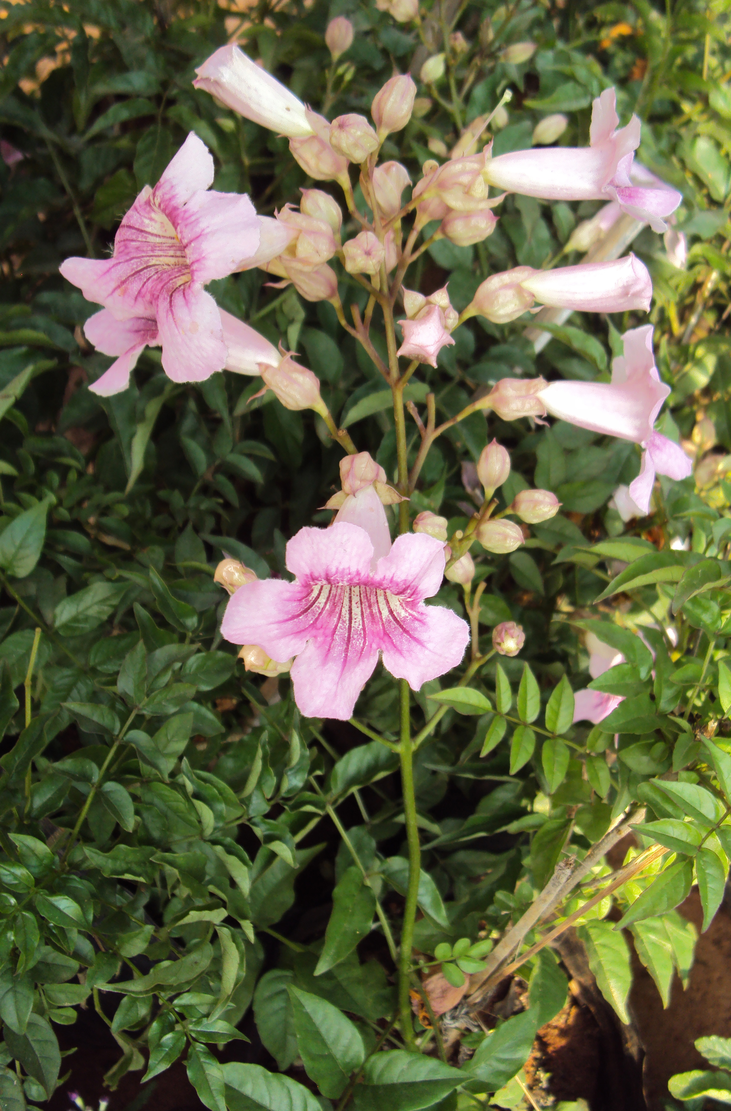 Podranea ricasoliana